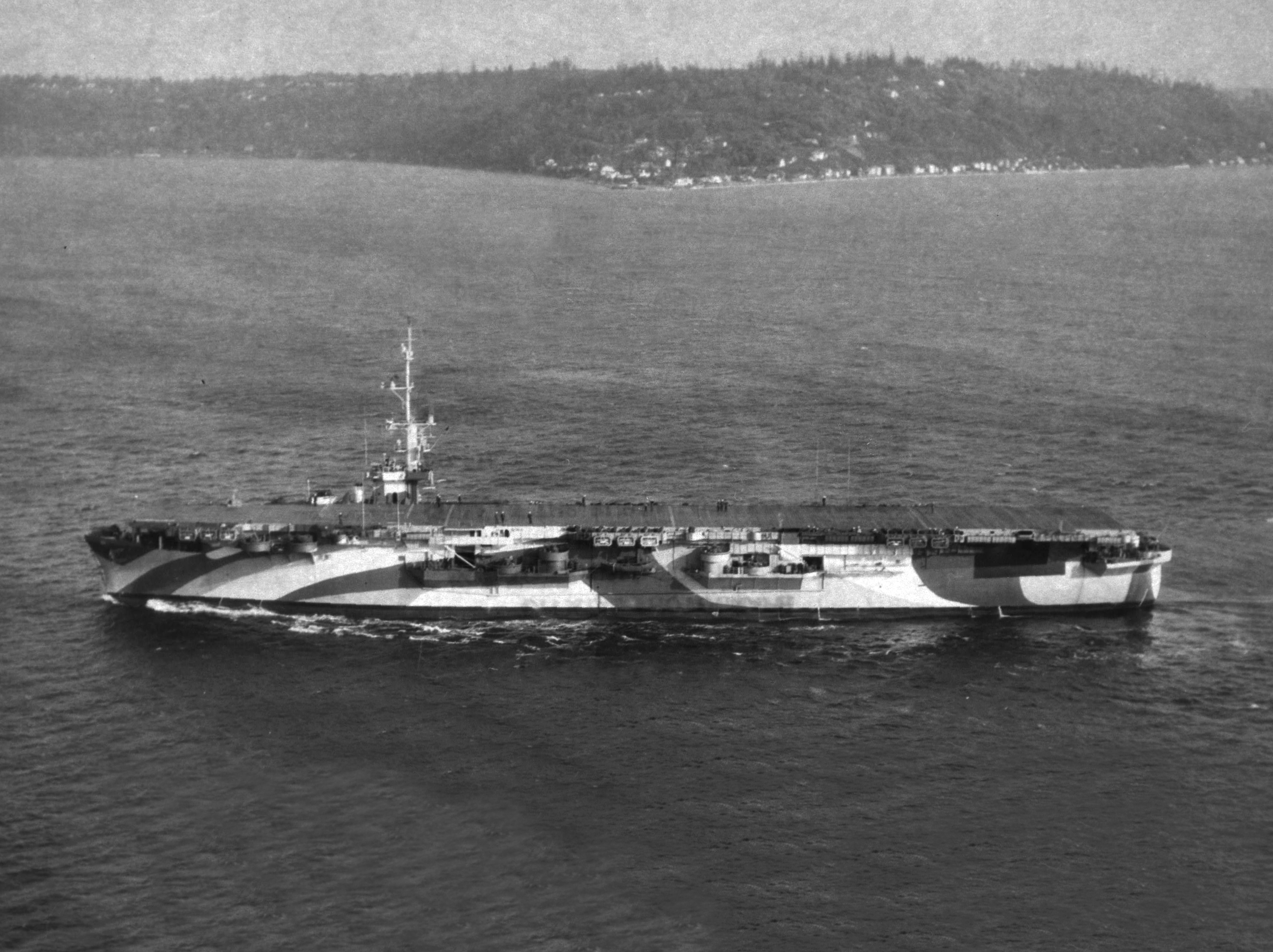 The U.S. Navy escort carrier USS Block Island (CVE-106) on 13 January 1945 off the north end of Vashon Island, Washington (USA). She wears Camouflage Measure 33 Design 18A.